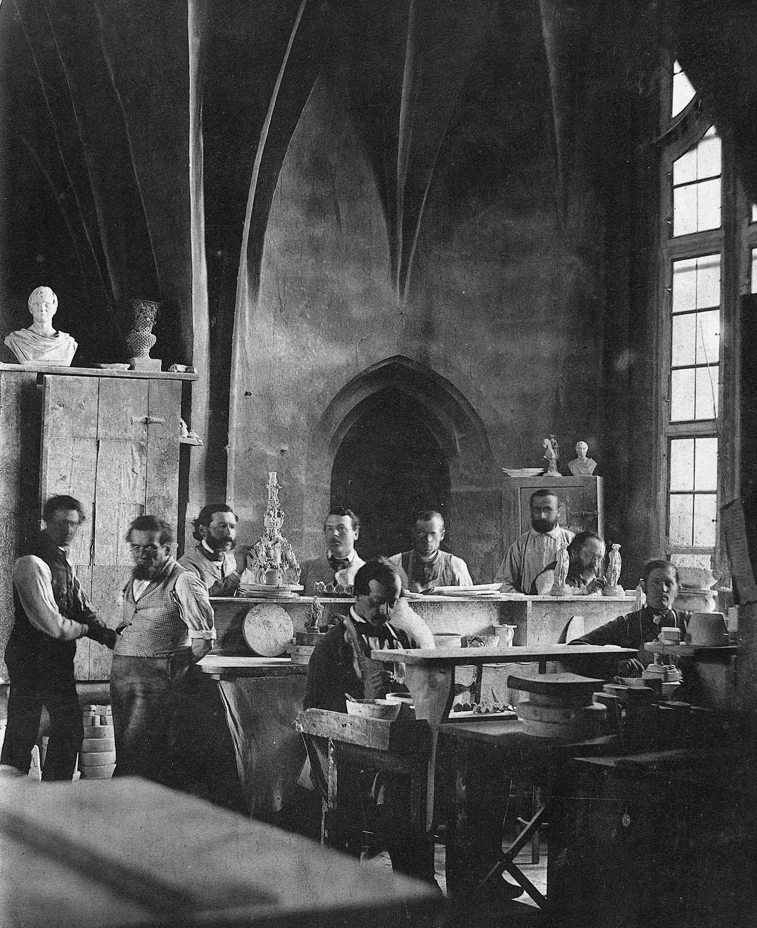 Porcelain-manufacture Meißen in the castle before 1867